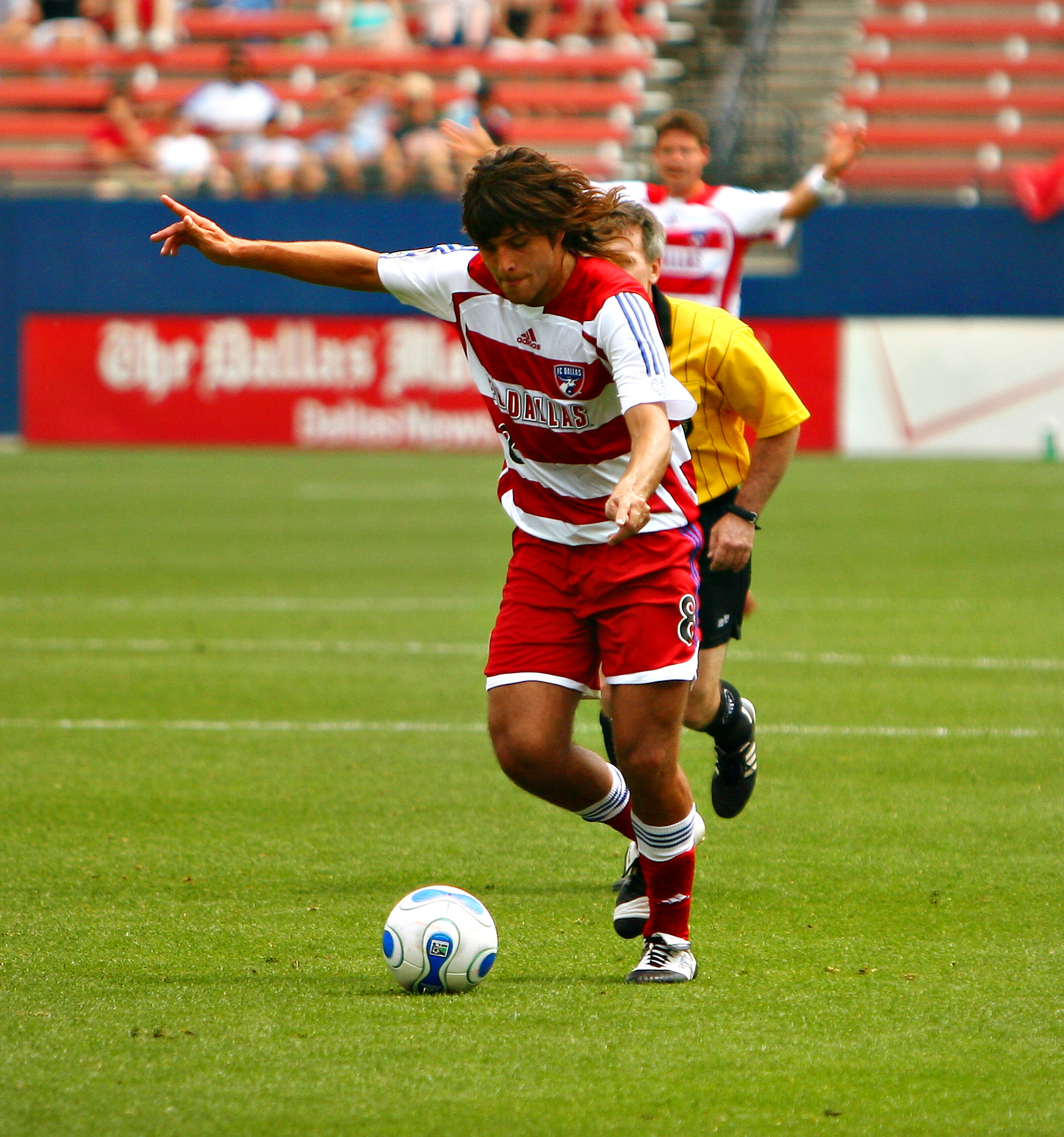 Juan Carlos Toja of FC Dallas playing against the New England Revolution